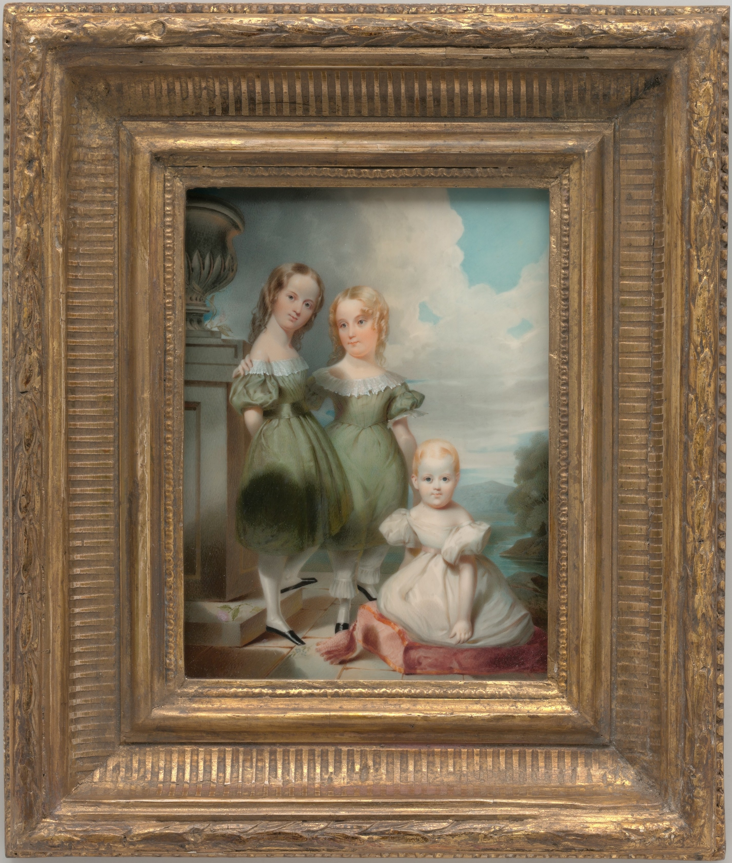 The Children of Homer Ramsdell, Esq. Artist: Thomas Seir Cummings (American (born England), Bath 1804–1894 Hackensack, New Jersey) Date: 1842 Medium: Watercolor on ivory Dimensions: 7 3/8 x 5 3/4 in. (18.7 x 14.6 cm) Classification: Paintings Credit Line: Purchase, William Cullen Bryant Fellows Gifts, 2001 This miniature depicts three of the children of the New York City dry-goods merchant Homer Ramsdell and his wife, Frances E. L. Powell. The children are Mary Ludlow Powell (1836-?), Frances Josephine (1838-?), and Thomas Powell (1840-?). Cummings exhibited the piece under this title at the National Academy of Design in 1842.